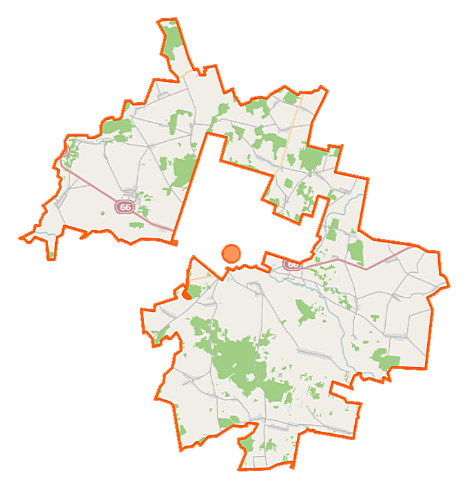 Map of Gmina Brańsk, Poland This map of Brańsk (gmina) was created from OpenStreetMap project data, collected by the community. This map may be incomplete, and may contain errors. Don't rely solely on it for navigation. Border coordinates52.867922.6490←↕→23.020552.6314